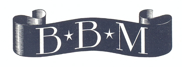 alternative BBM-logo 1941-1943